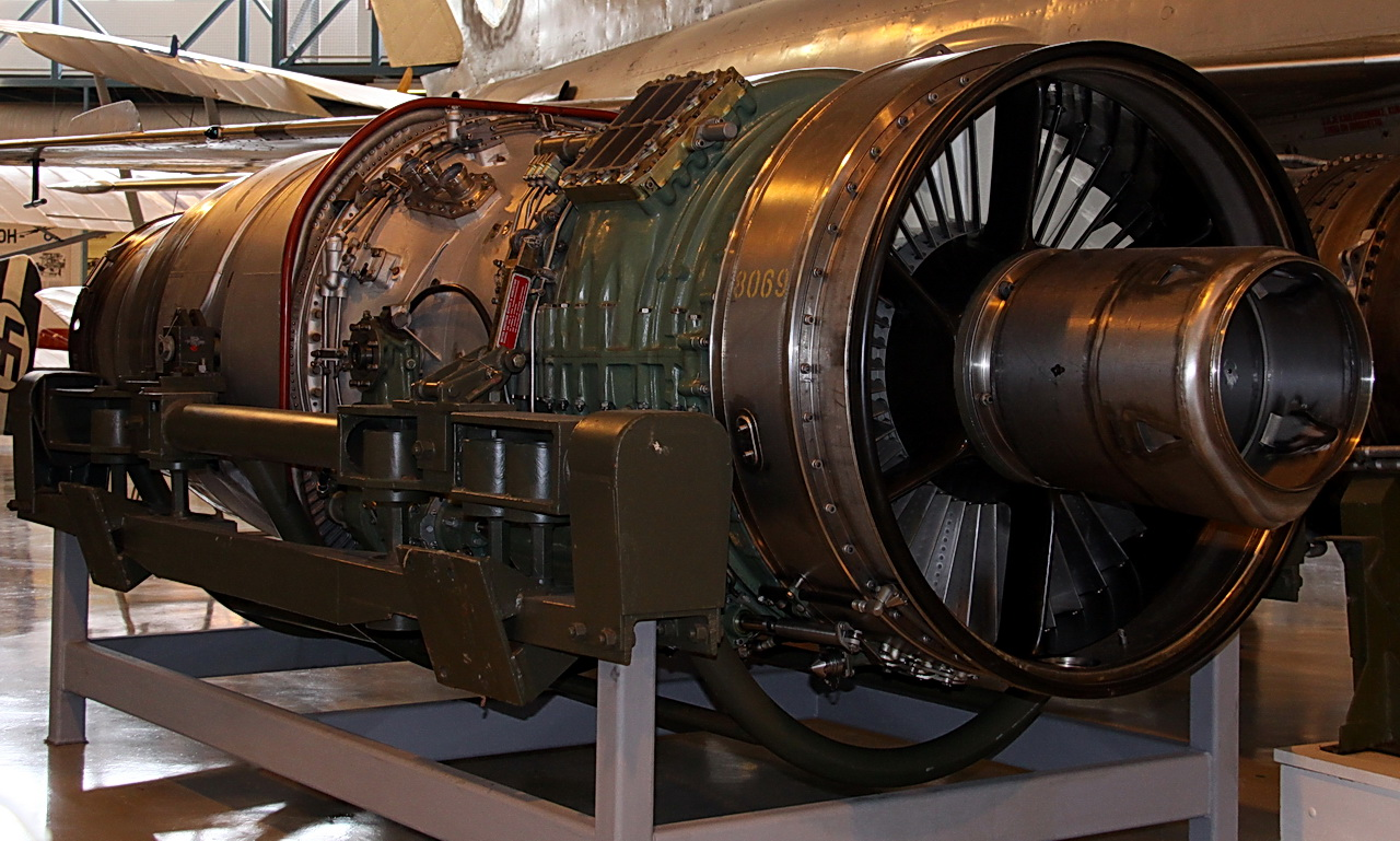 Volvo RM6B in Aviation Museum of Central Finland.